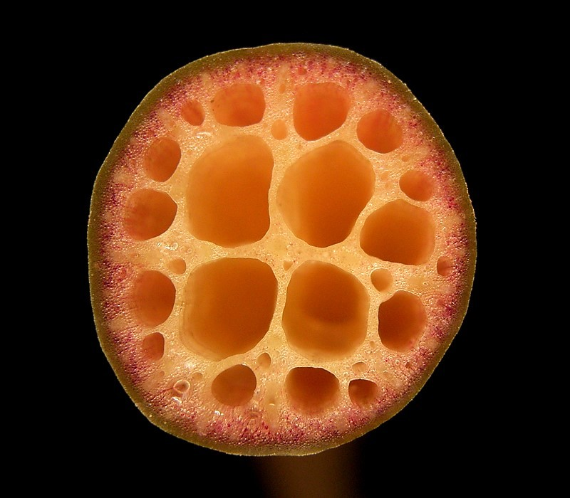 Nymphaea pedicel cross section